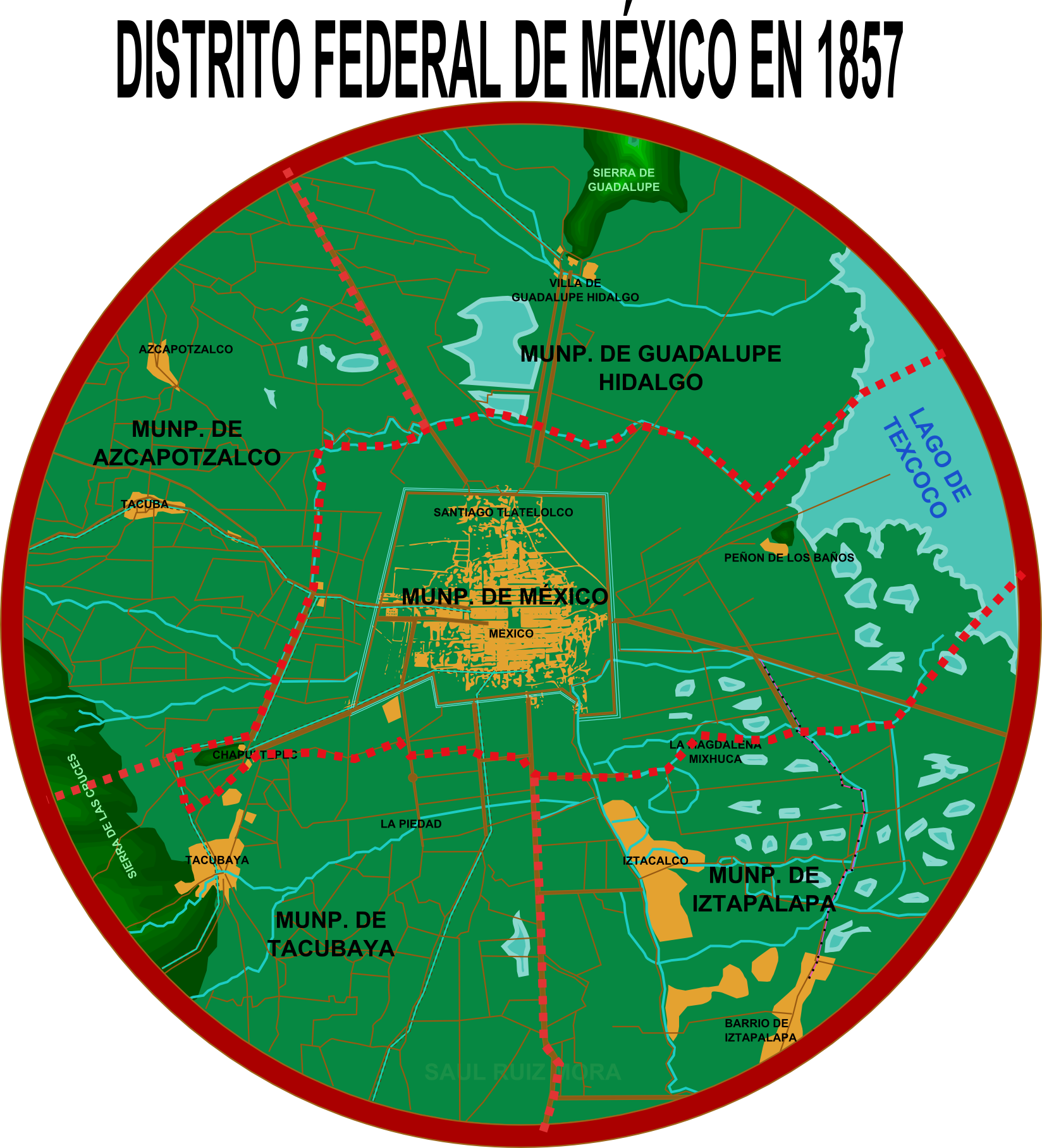 Based on the Historical Atlas Mexico City by Sonia Lombardo de Ruiz, 1996, ISBN 978-9687193120, UNAM, Mexico, pp. 152 to 170, and the book Geografía Histórica Política de la Reforma, de Gerald L. McGowan, Aguascalientes: México, INEGI-Colegio Mexiquense, 1991, 968-634-16-1, pp. 51 to 56.